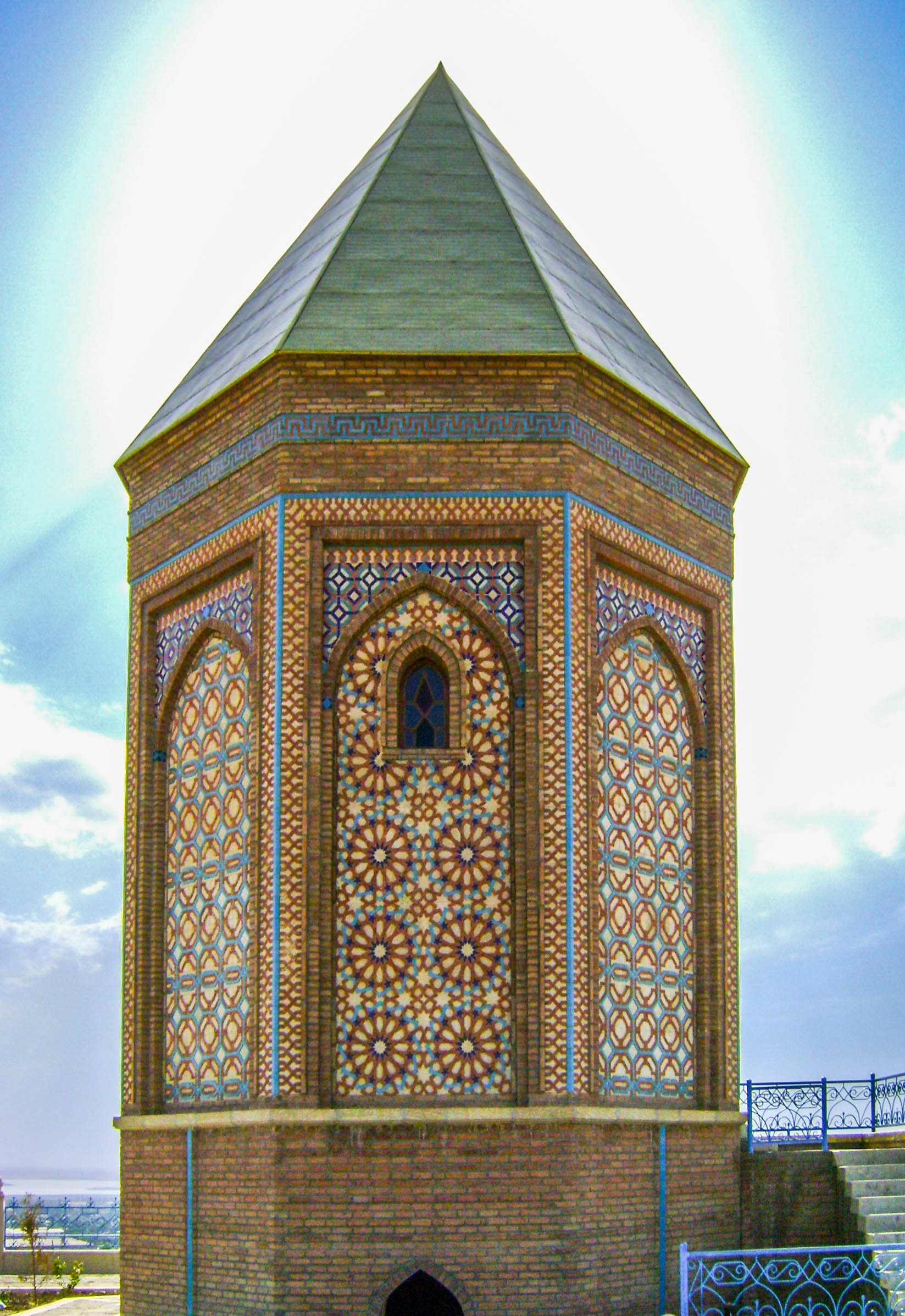 Nakhchivan_The_grave_monument_of_the_prophet_Noah